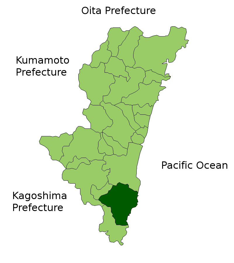 Location Map of Nichinan in Miyazaki Prefecture, Japan